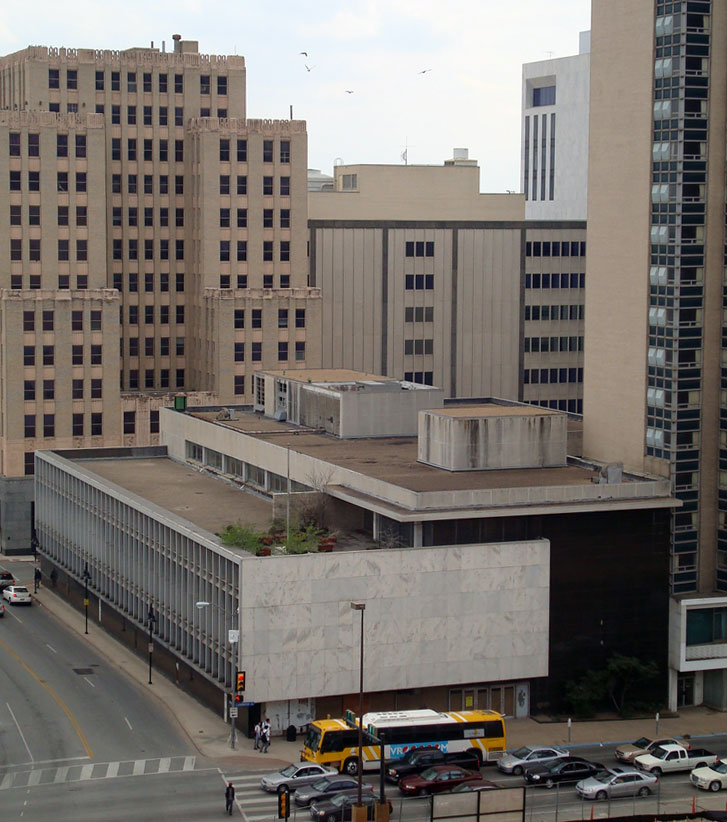 Old Dallas Public Library building in Dallas, Texas.